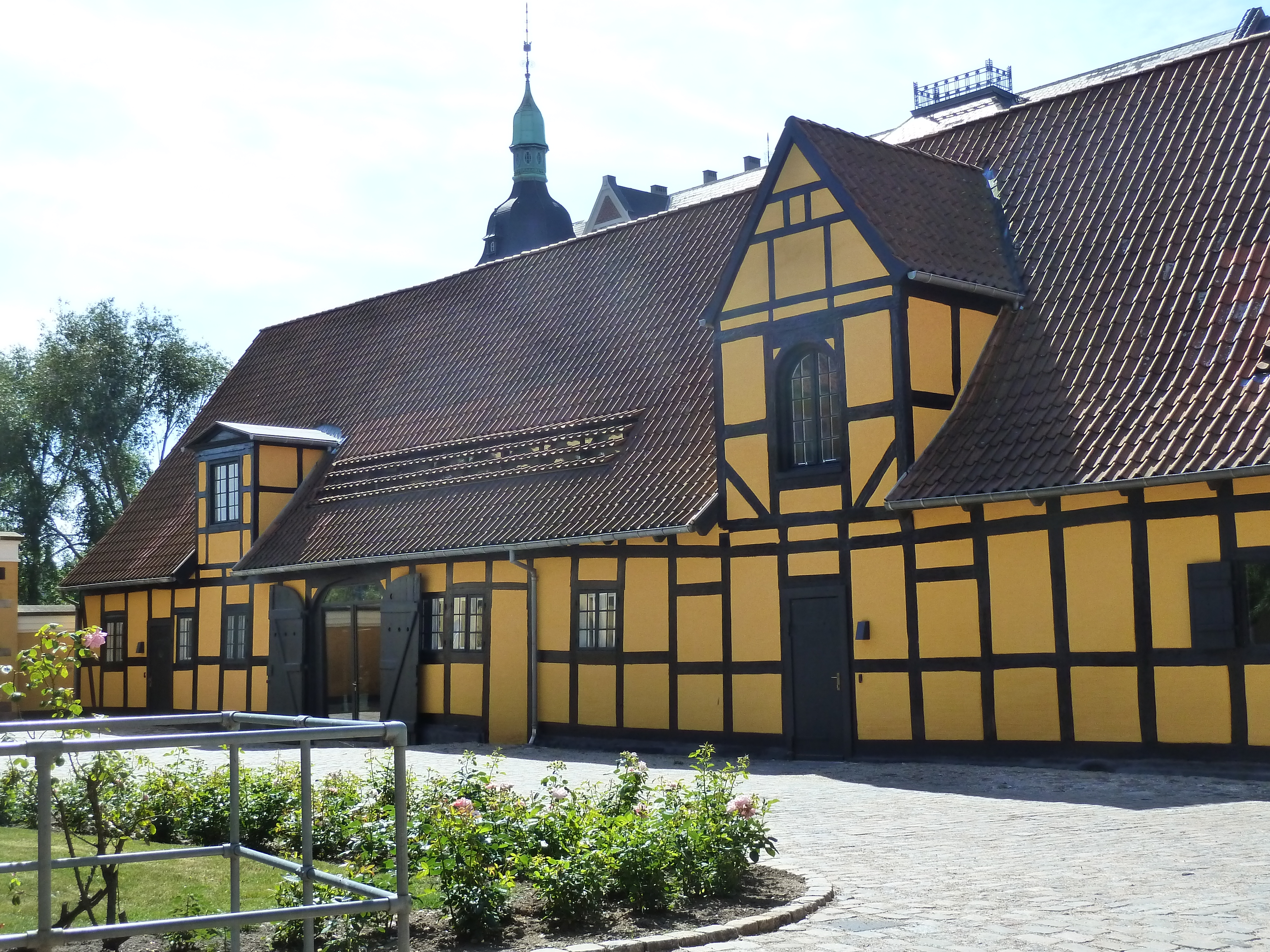 The half-timbered storage building along Vester Voldgade, part of Fæstningens Materielgård, in Copenhagen, Denmark, seen from the courtyard side.